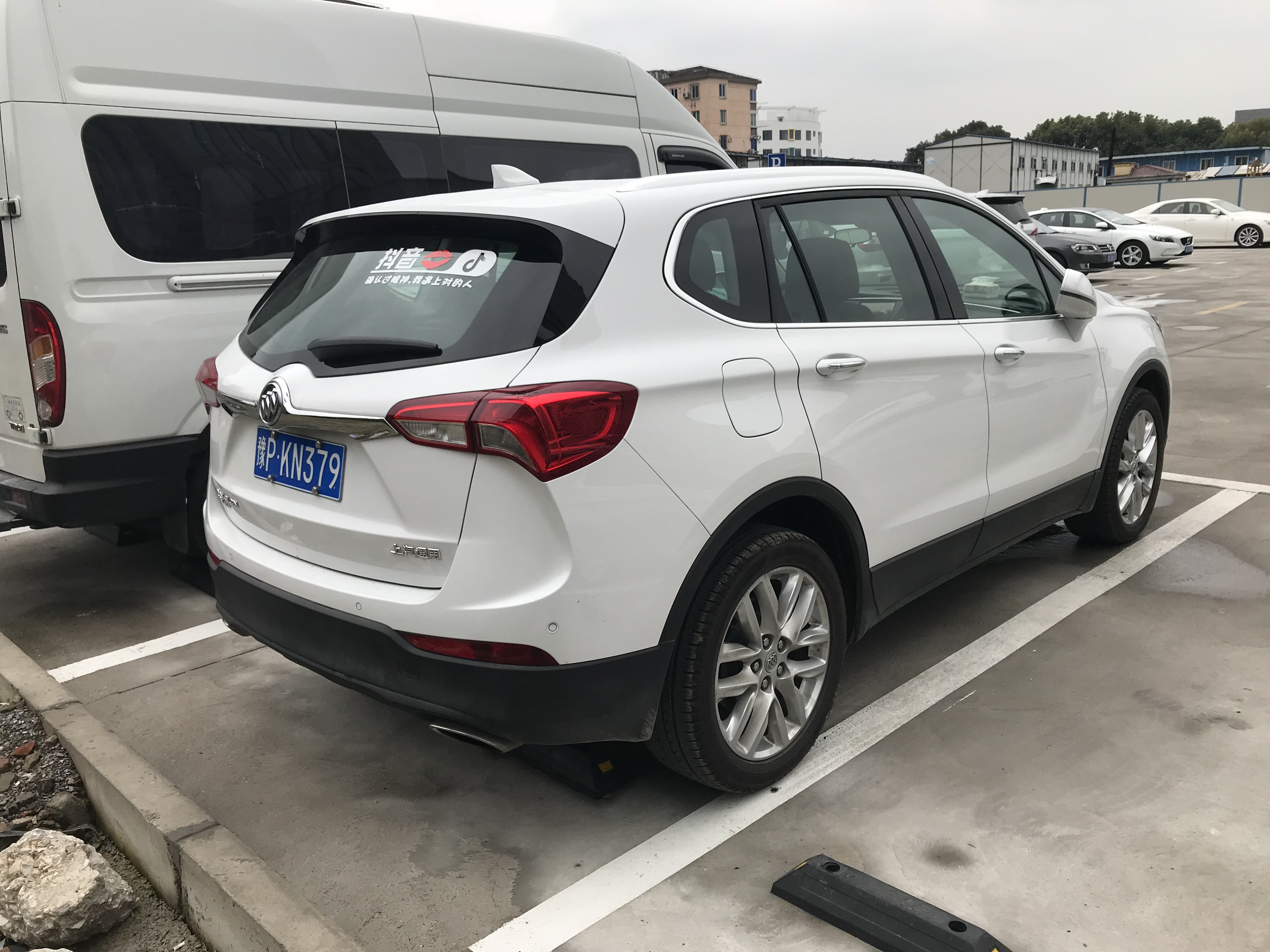 Buick Envision facelift